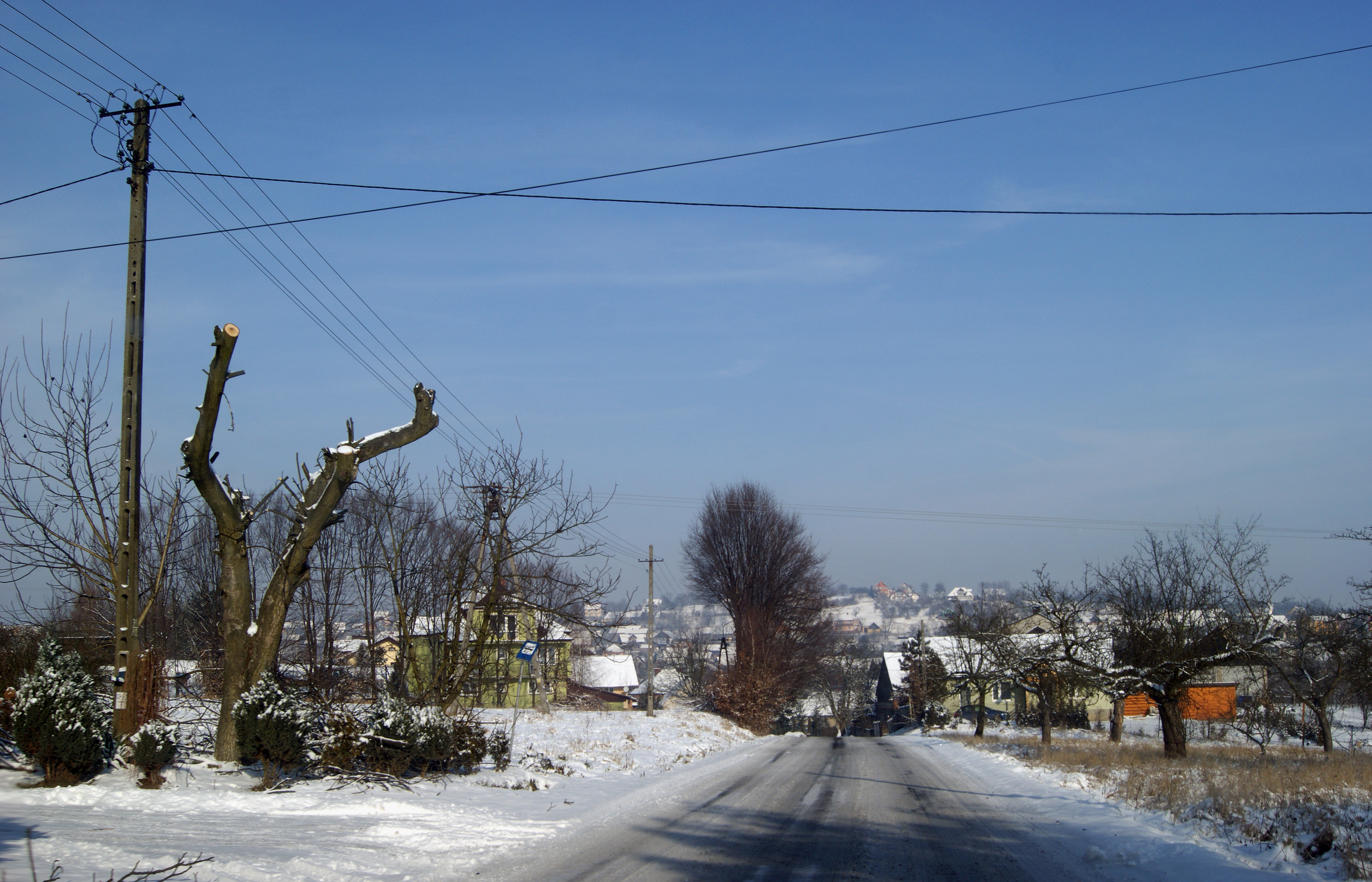 Czułów village, view from S, Krakow county, Poland